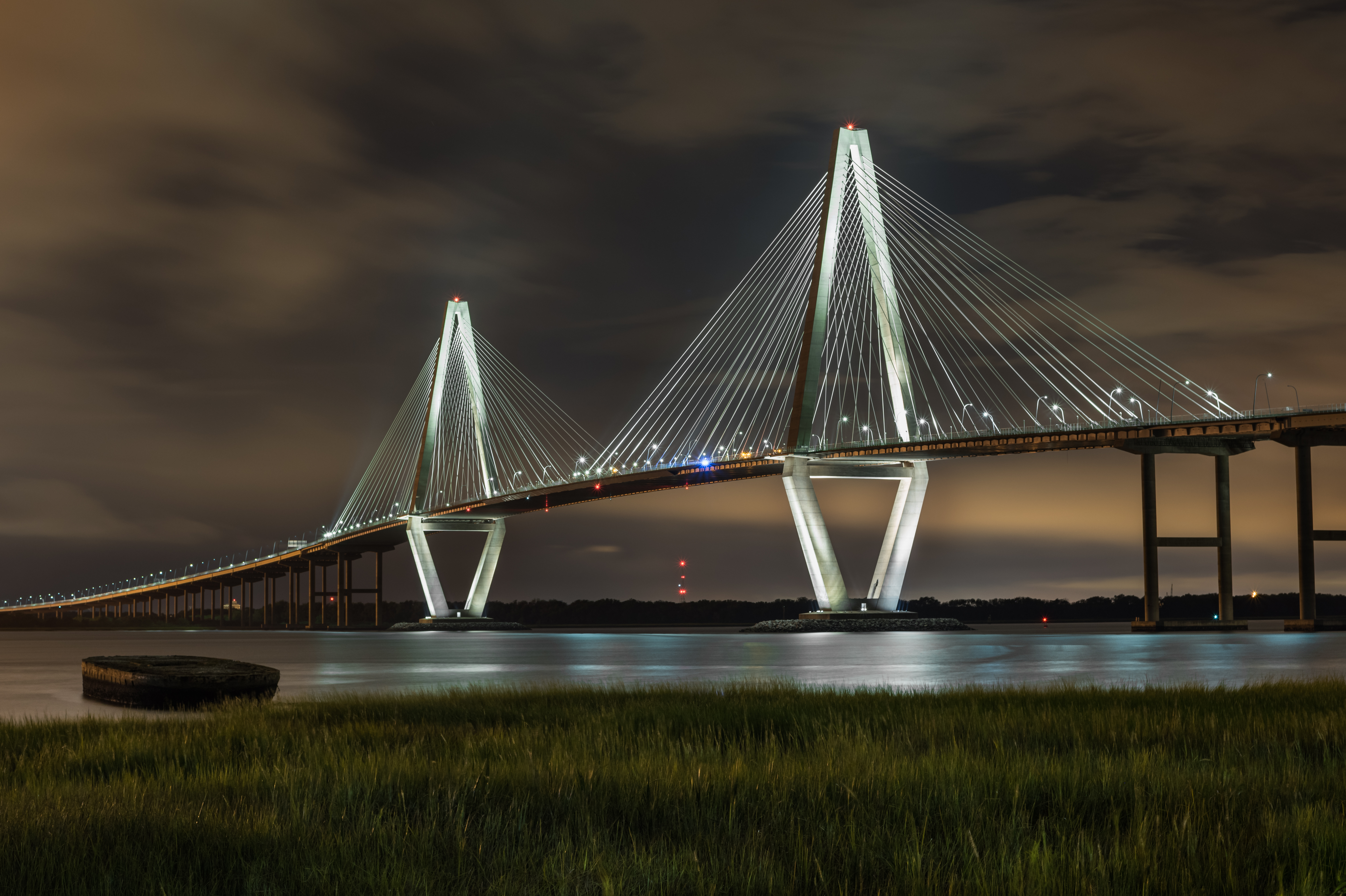 Arthur Ravenel Jr. Bridge (also known as the Cooper River Bridge) at night, looking northwest from Mount Pleasant, South Carolina.